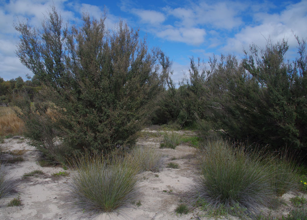 Leptospermum erubescens near Nanning Well, east of Dowerin